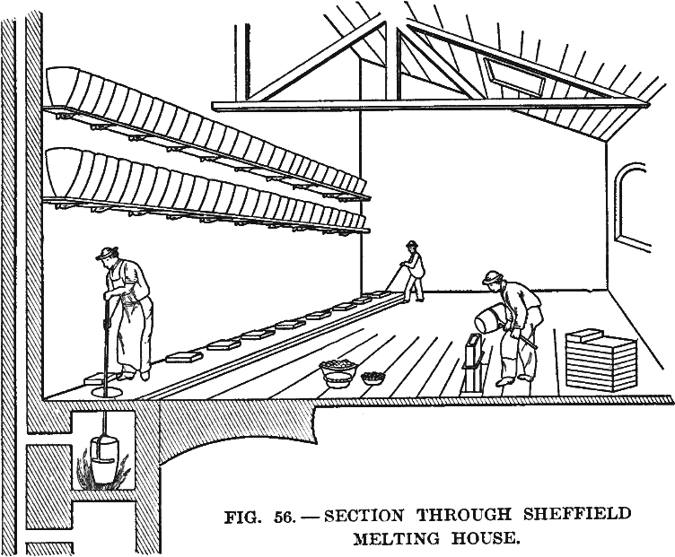 Sketch of a steel melting house where was made crucible steel.